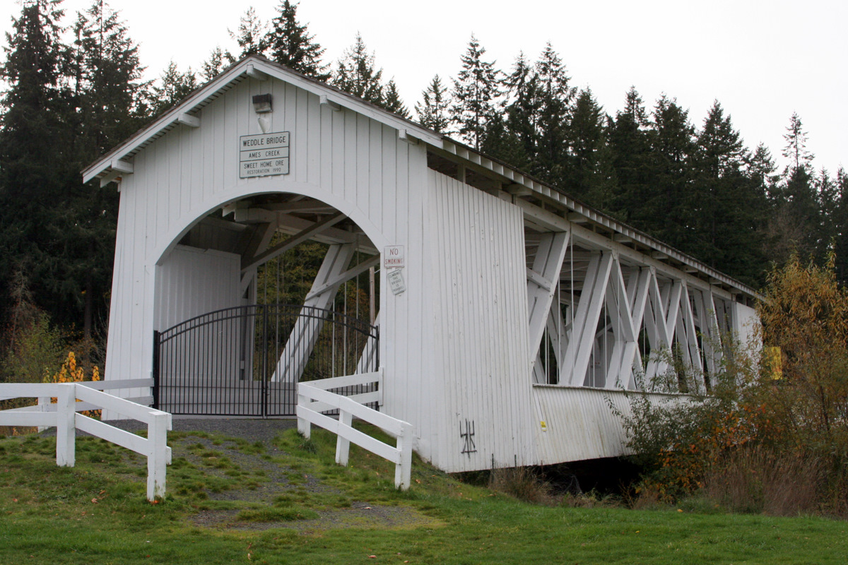 Weddle Bridge crossing Ames Creek in Sweet Home, Oregon, USA